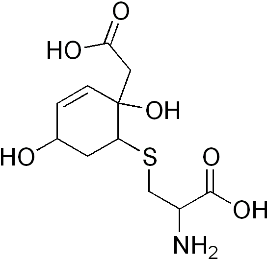 chemical structure of hawkinsin